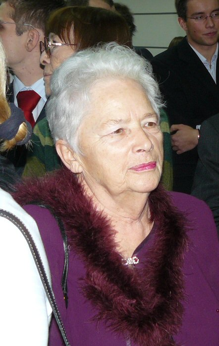 Aleksandra Banasiak - polish nurse, participant of Poznań June '56